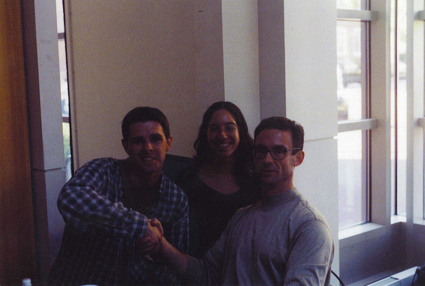 Chuch Palahniuk at Providence, Rhode Island, 2003 ("Diary" Tour)